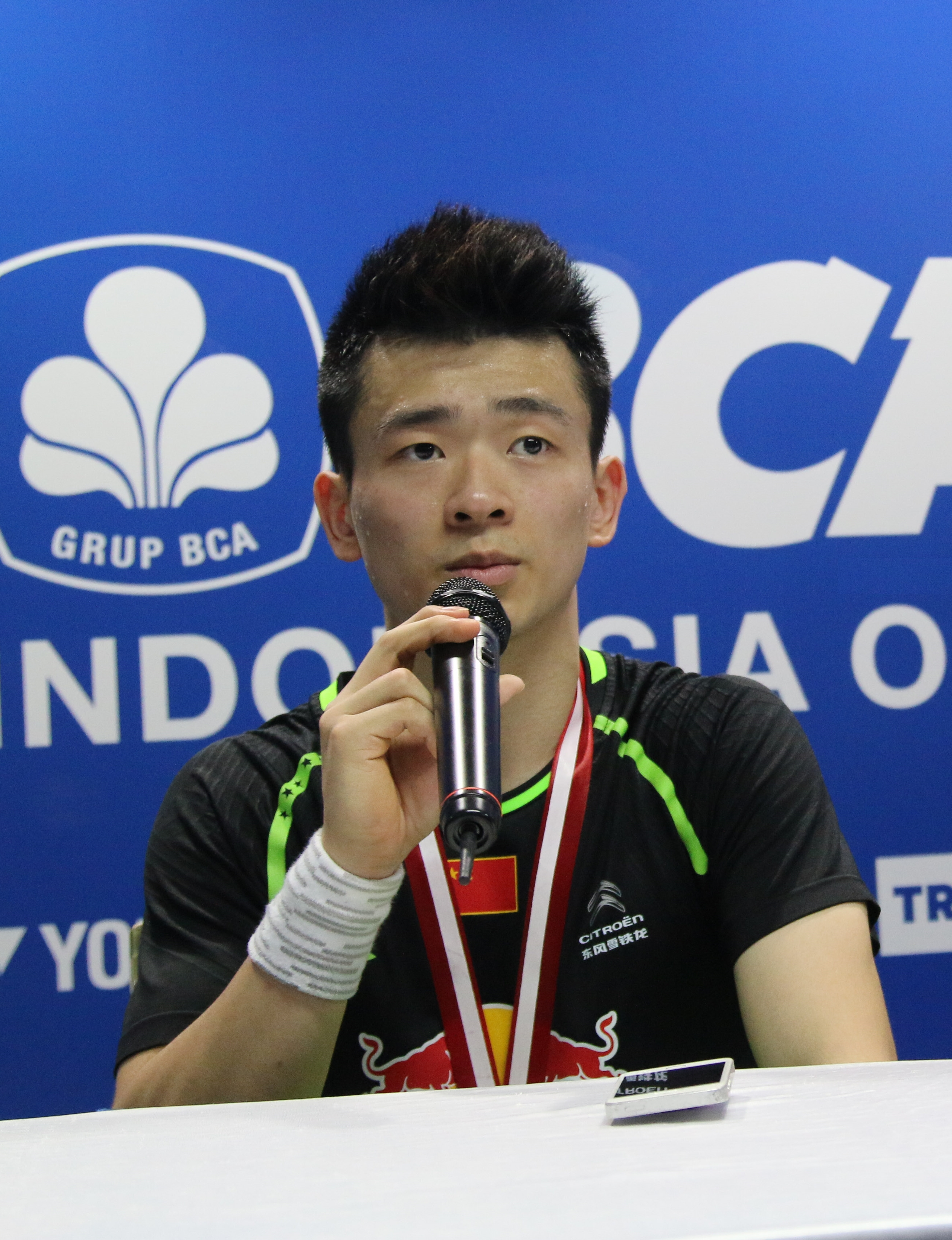 Zheng Siwei at Indonesia Open 2017 post match press conference